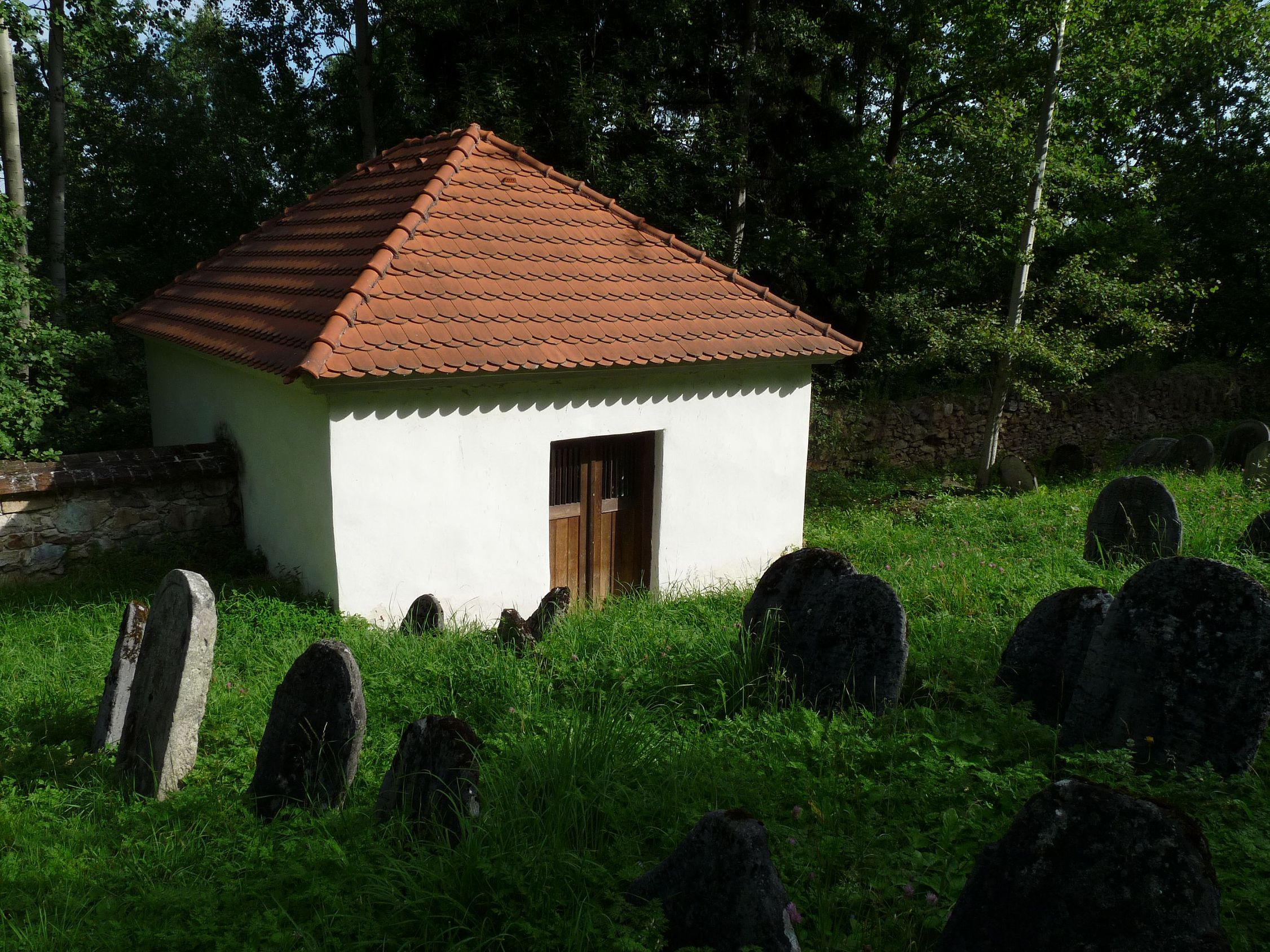 Ceremonial hall in the Jewish cemetery at the village of Čichtice, part of the town of Bavorov in Strakonice District, Czech Republic.